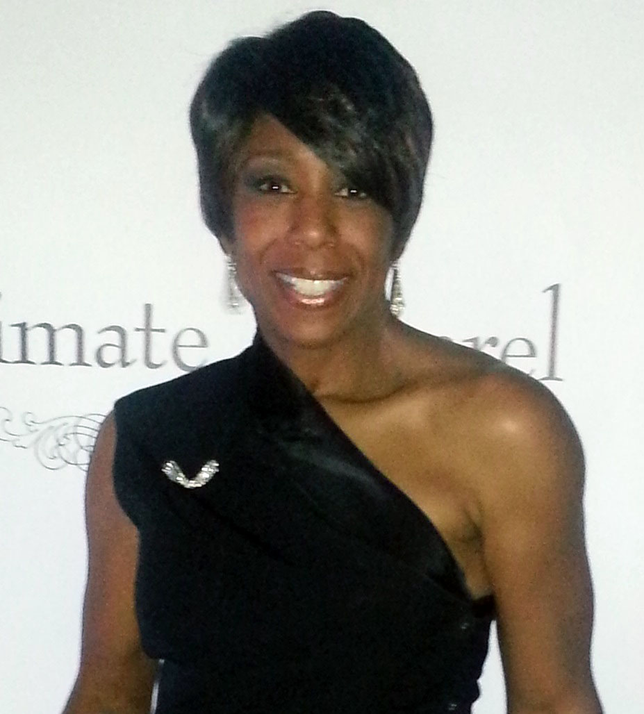 Dawnn Lewis at the Pasadena Playhouse on November 11, 2012